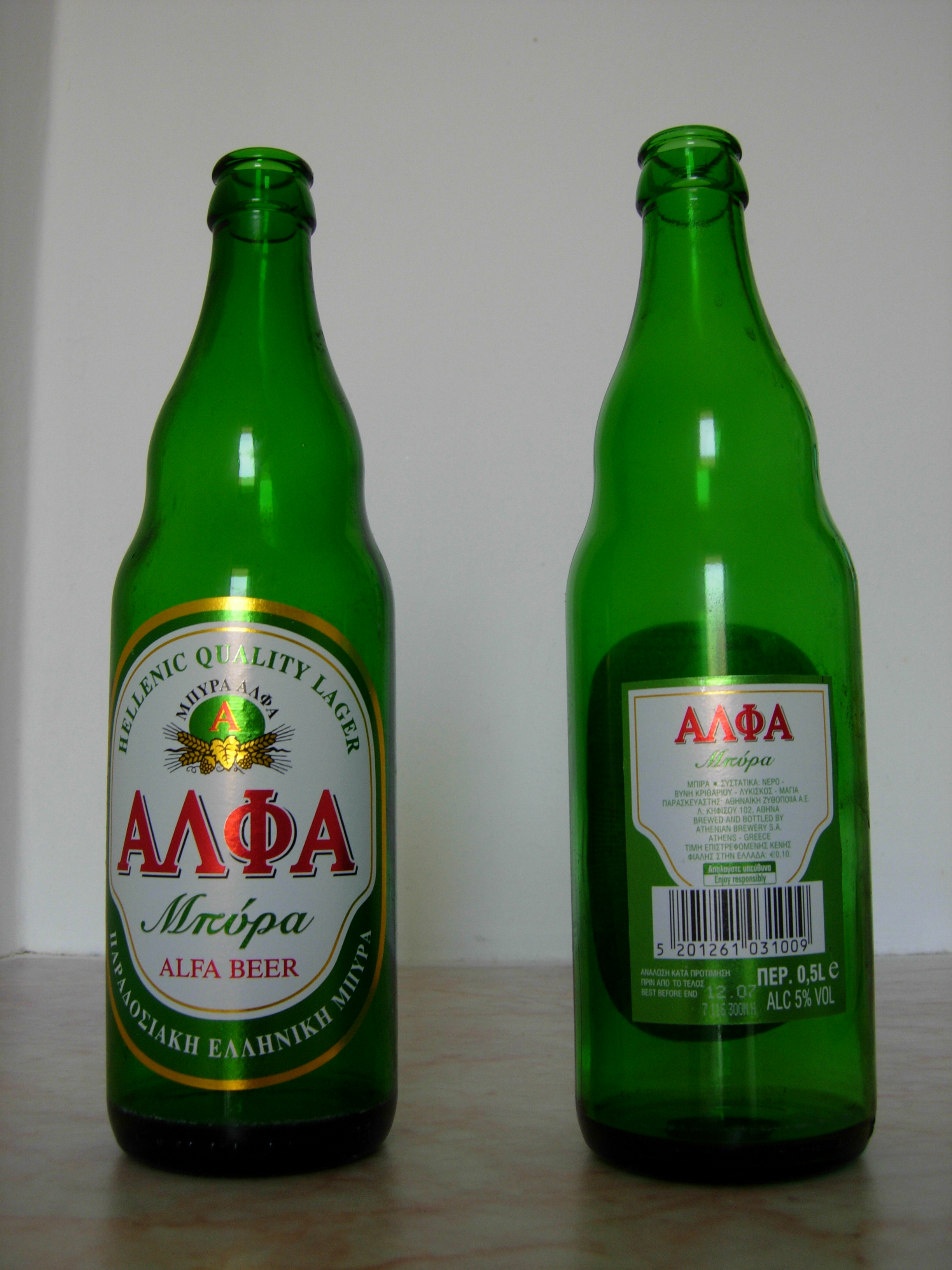 Two bottles of Greek beer Alfa beer